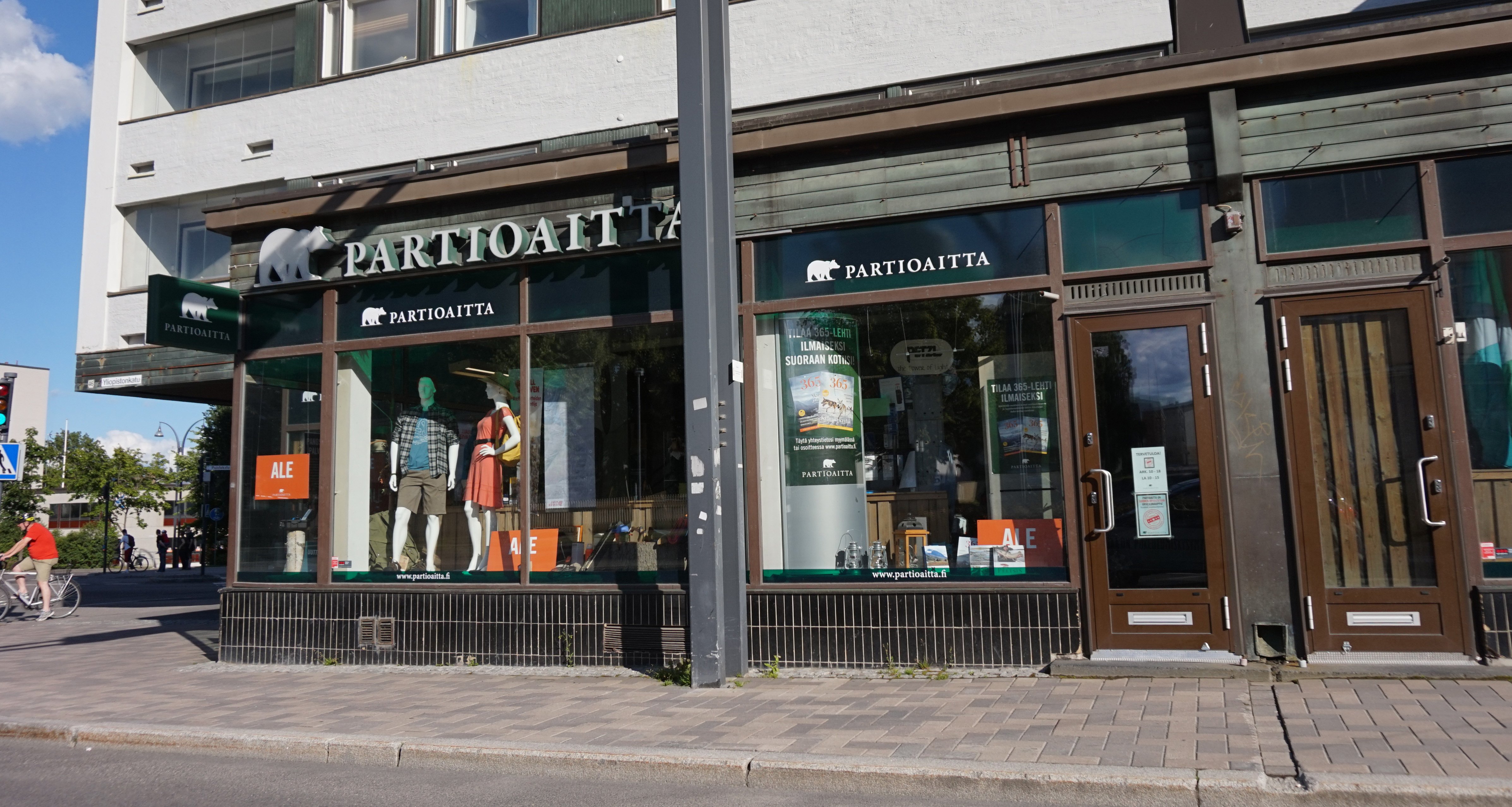 The store Partioaitta, Jyväskylä.This photograph was taken with a Sony ILCE-5000